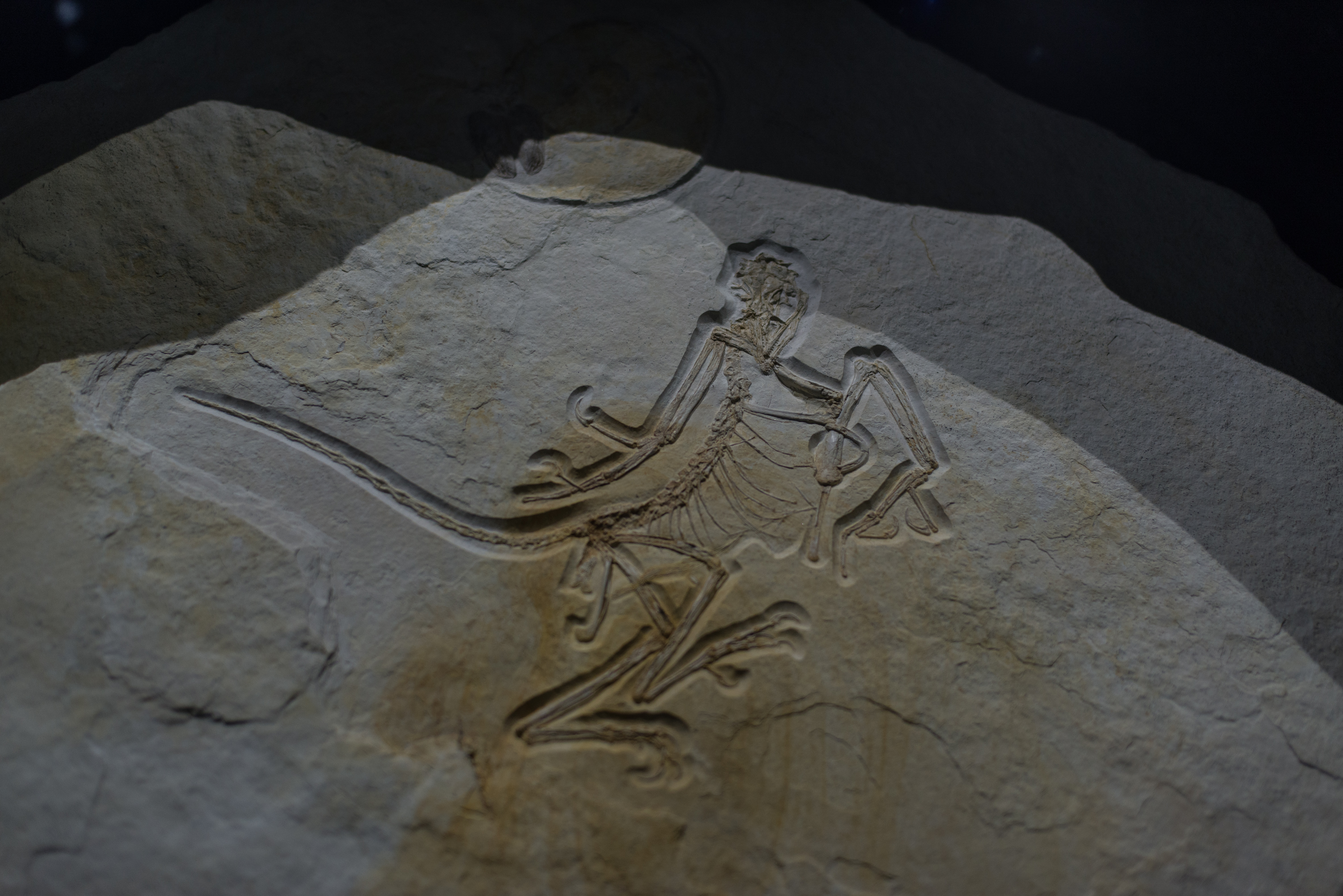 Twelfth Archaeopteryx specimen.